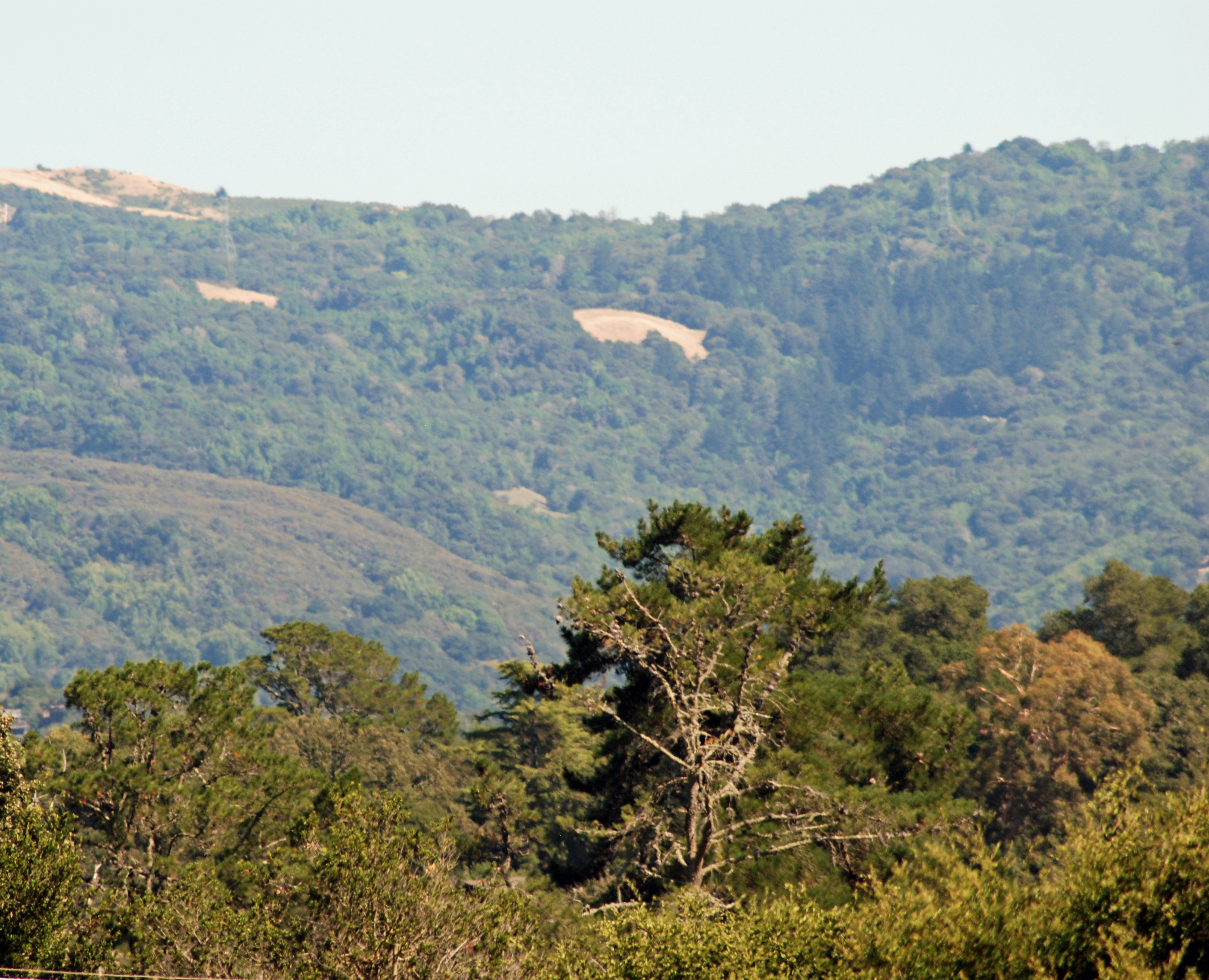 Shot looking southeast from Jasper Ridge Biological Preserve's Sun Field Station up the Corte Madera Creek (San Francisquito Creek) watershed - Santa Cruz Mountains.